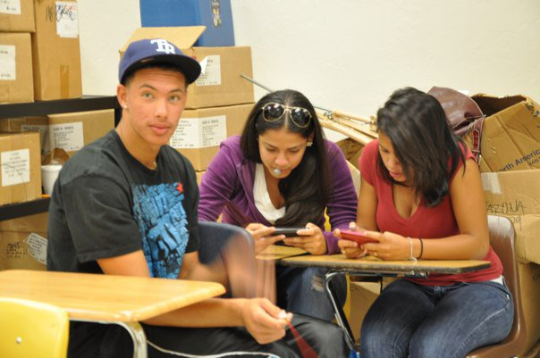 Student texting during class